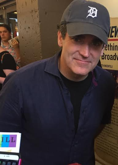 Brian d'Arcy James at the stage door of "Something Rotten!" on Broadway